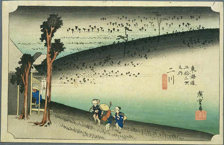 Futagawa on the Tokaido, ukiyo-e prints by Hiroshige